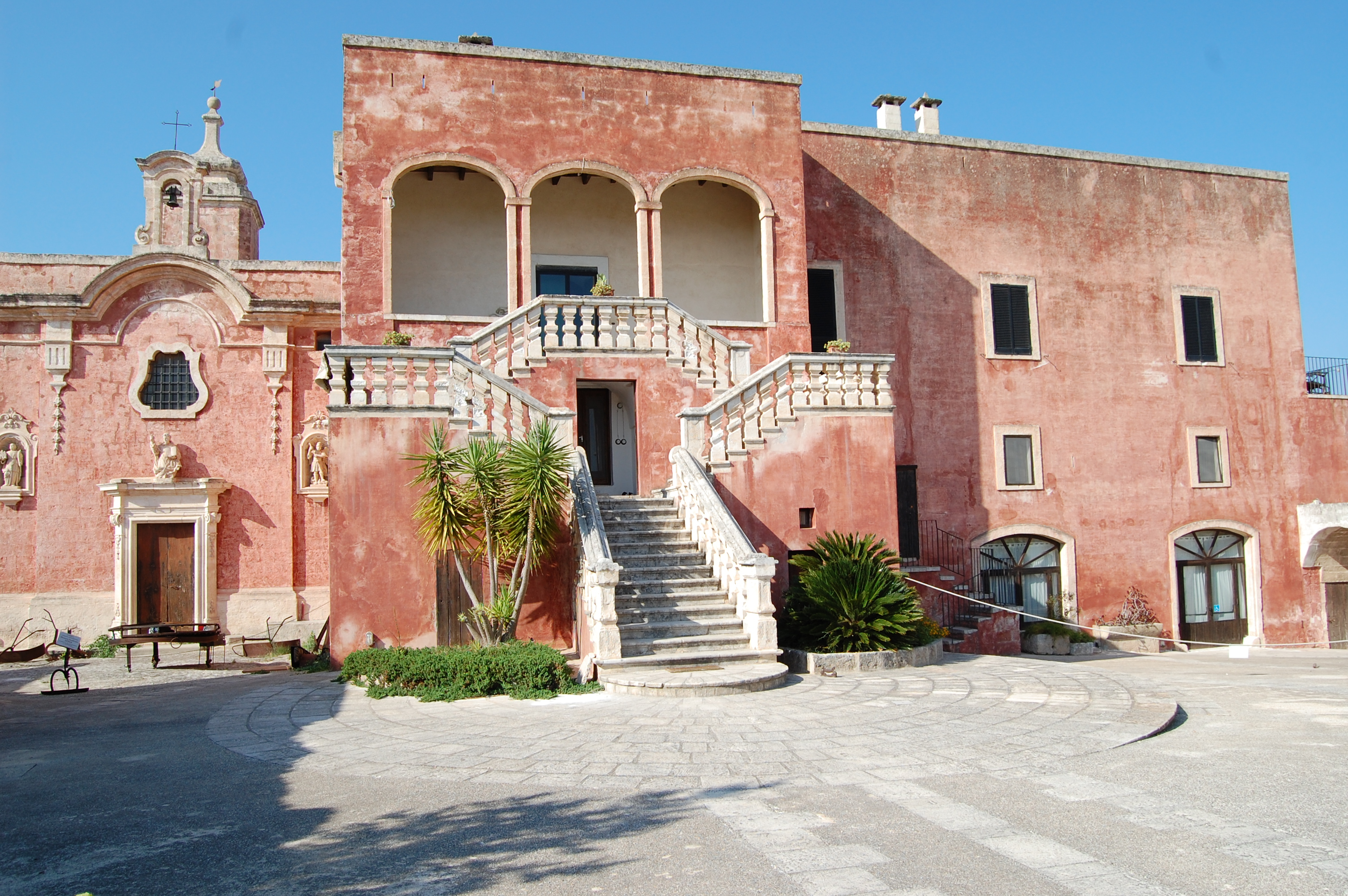 Il prospetto della Masseria